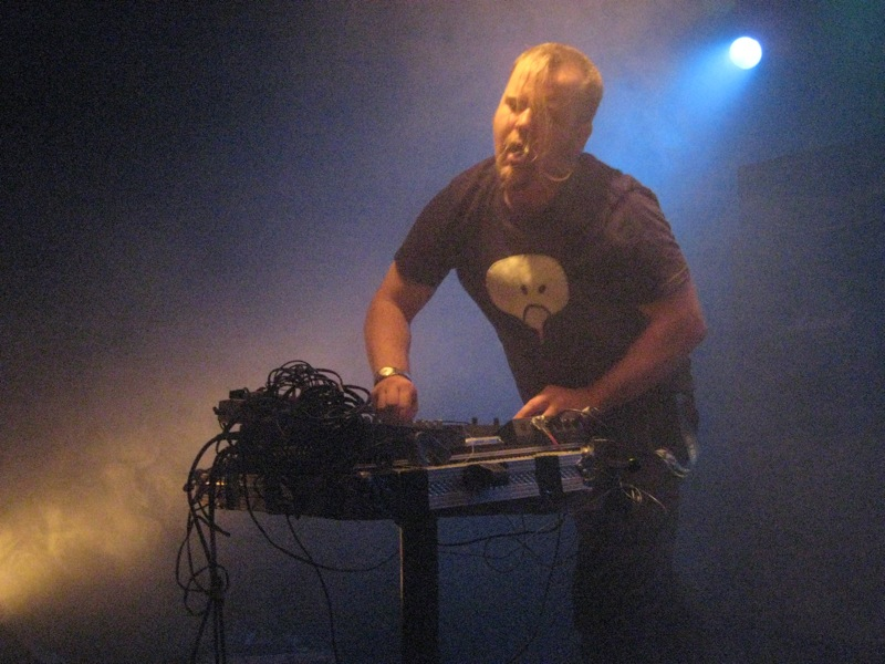 Birchville Cat Motel, Club Maria am Ostbahnhof, Berlin, Club Transmediale 07.